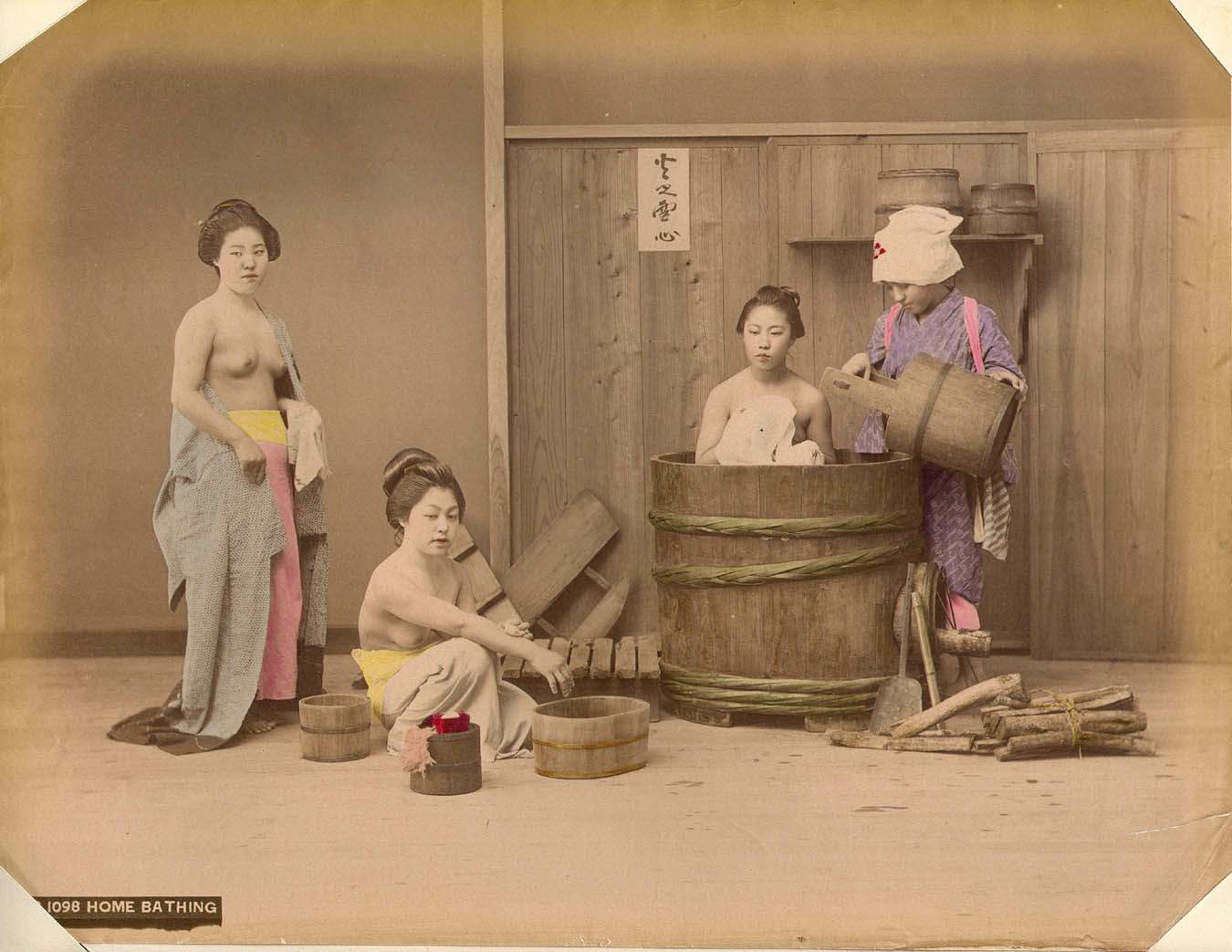 albumen